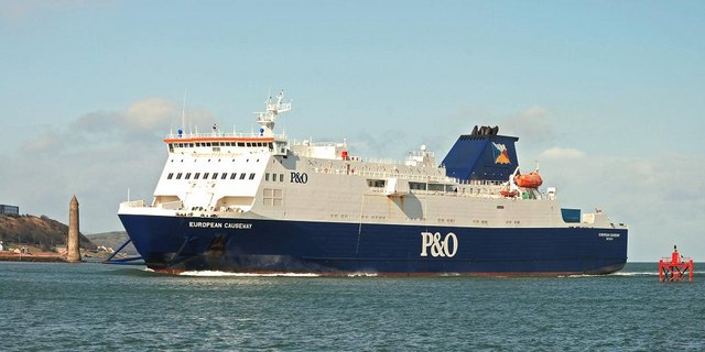 The "European Causeway" at Larne The “European Causeway” arriving at Larne with the 10.30 sailing from Cairnryan.